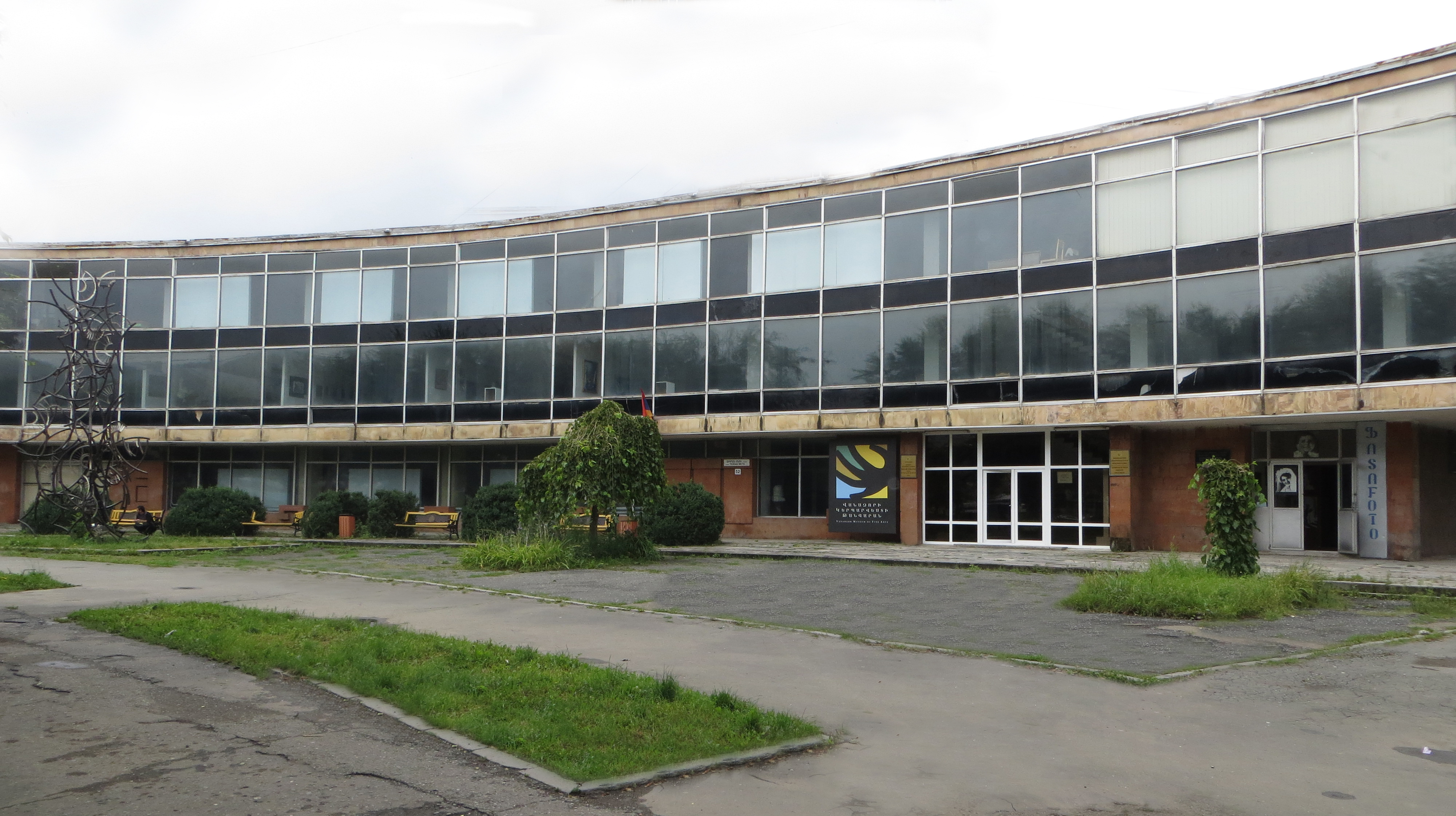 Vanadzor Fine Arts Museum.